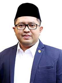 Politisi Muda NU, Wakil Sekretaris Jenderal PKB